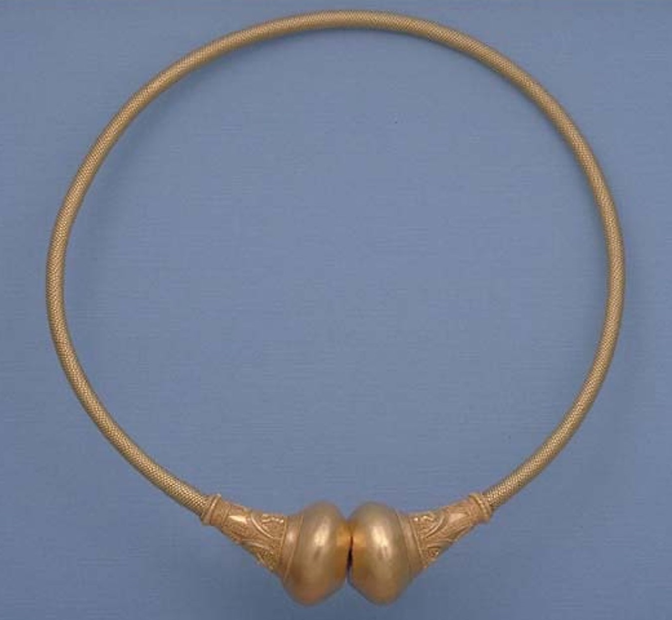 A replica of the Havor Ring stored by Historiska Museet in Stockholm, Sweden.